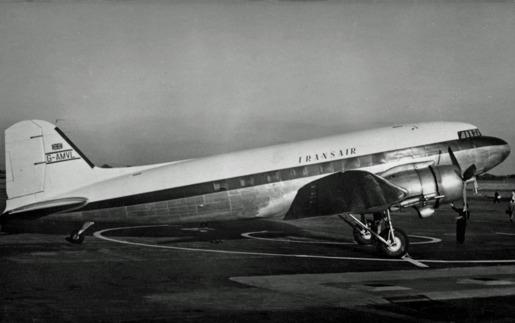 Transair Ltd Douglas C-47B Dakota G-AMVL at Manchester (Ringway) Airport